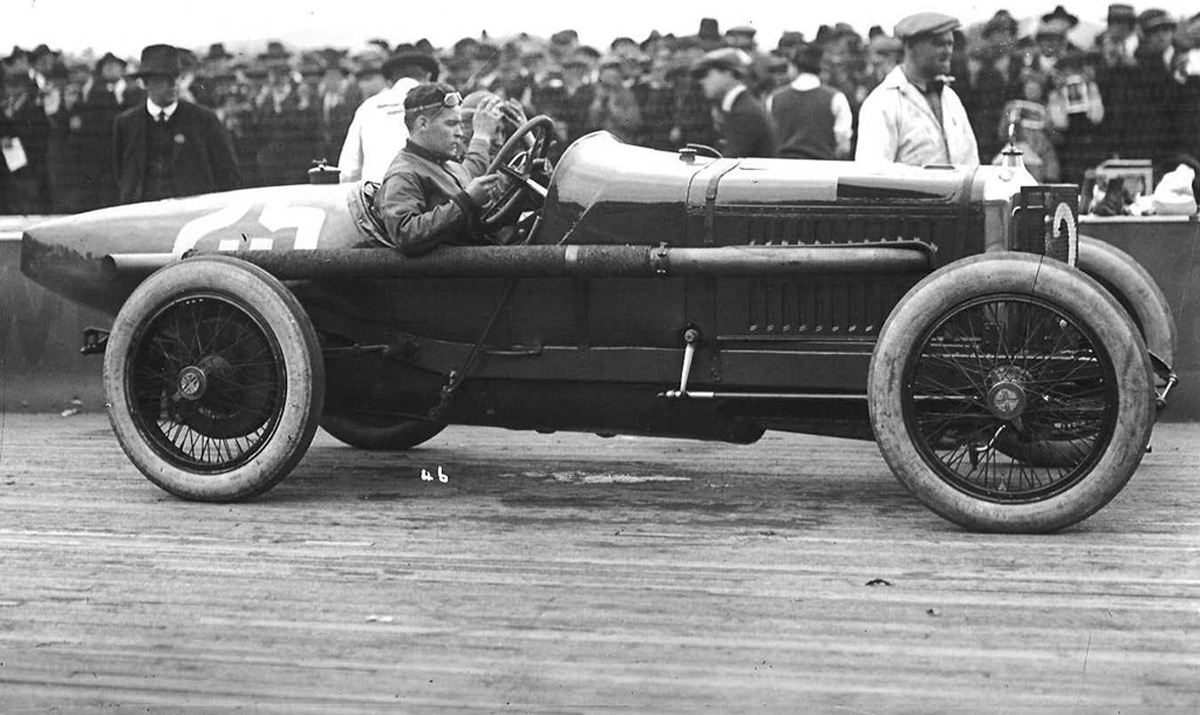 Championship Car racer Bennett Hill at Beverly Hills board track in 1920.